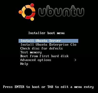 Screen Shot of Installing Ubuntu Server